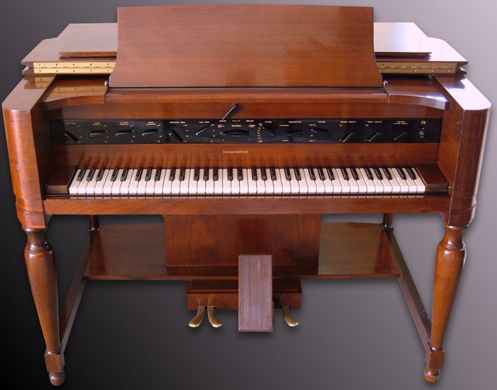 Hammond Novachord – front (small)